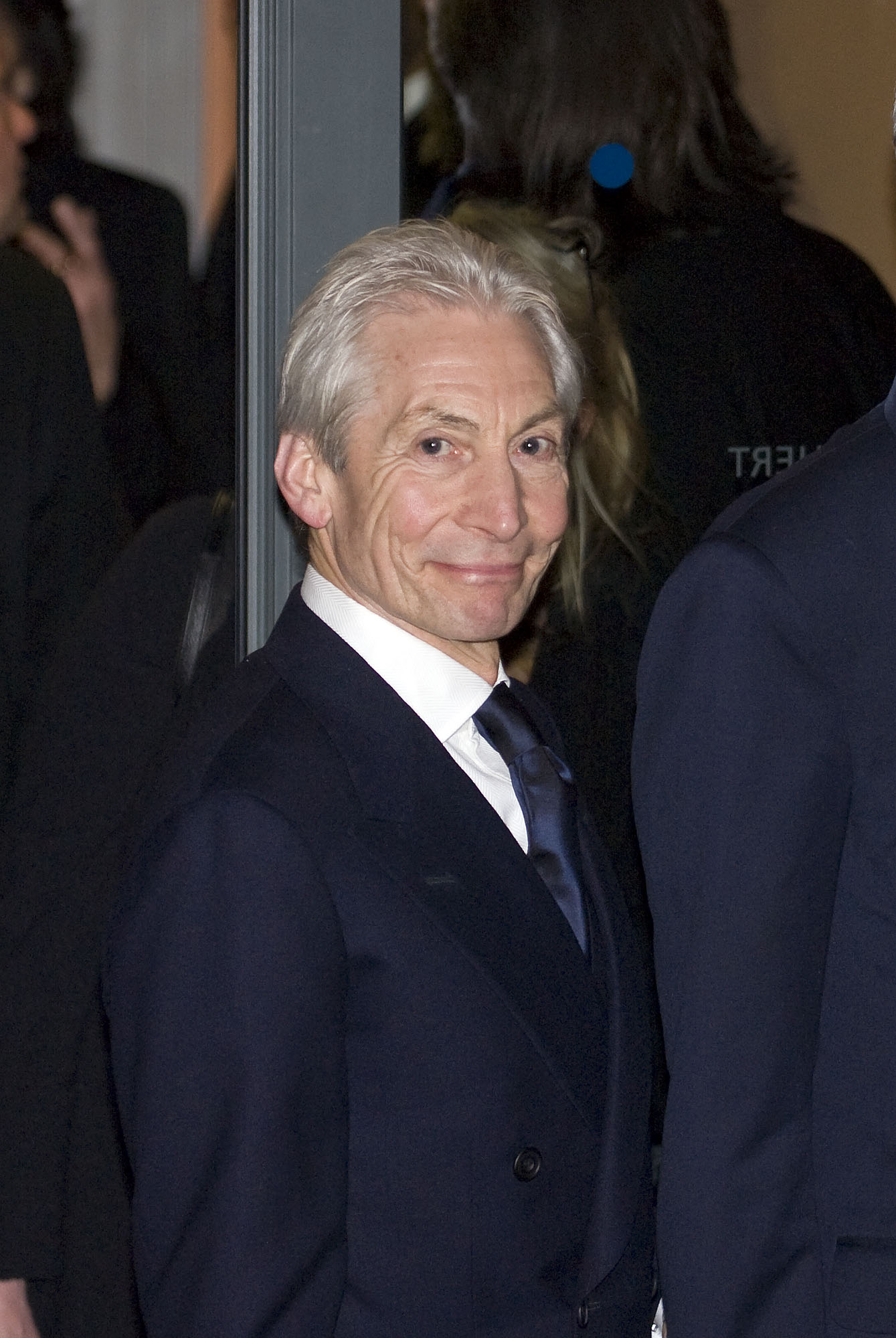 Charlie Watts, Opening of the 58th Berlin International Film Festival